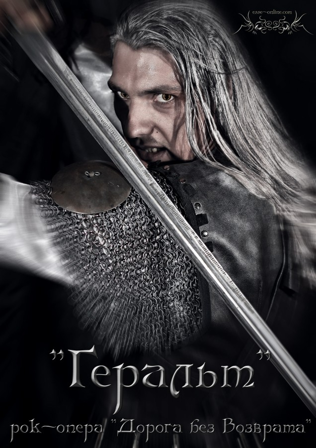 "Geralt". Fantasy rock musical of group "ESSE" -"The Road with No Return", based on the saga of A. Sapkowski "The Witcher". Official poster. Scene 4. Symphonic rock-group "ESSE". Vyacheslav Mayer (Geralt of Rivia, Witcher, Gwynbleidd, Vatt’ghern). (Poster - Taras Trushkin. Photo - Yuri Osadchy.)